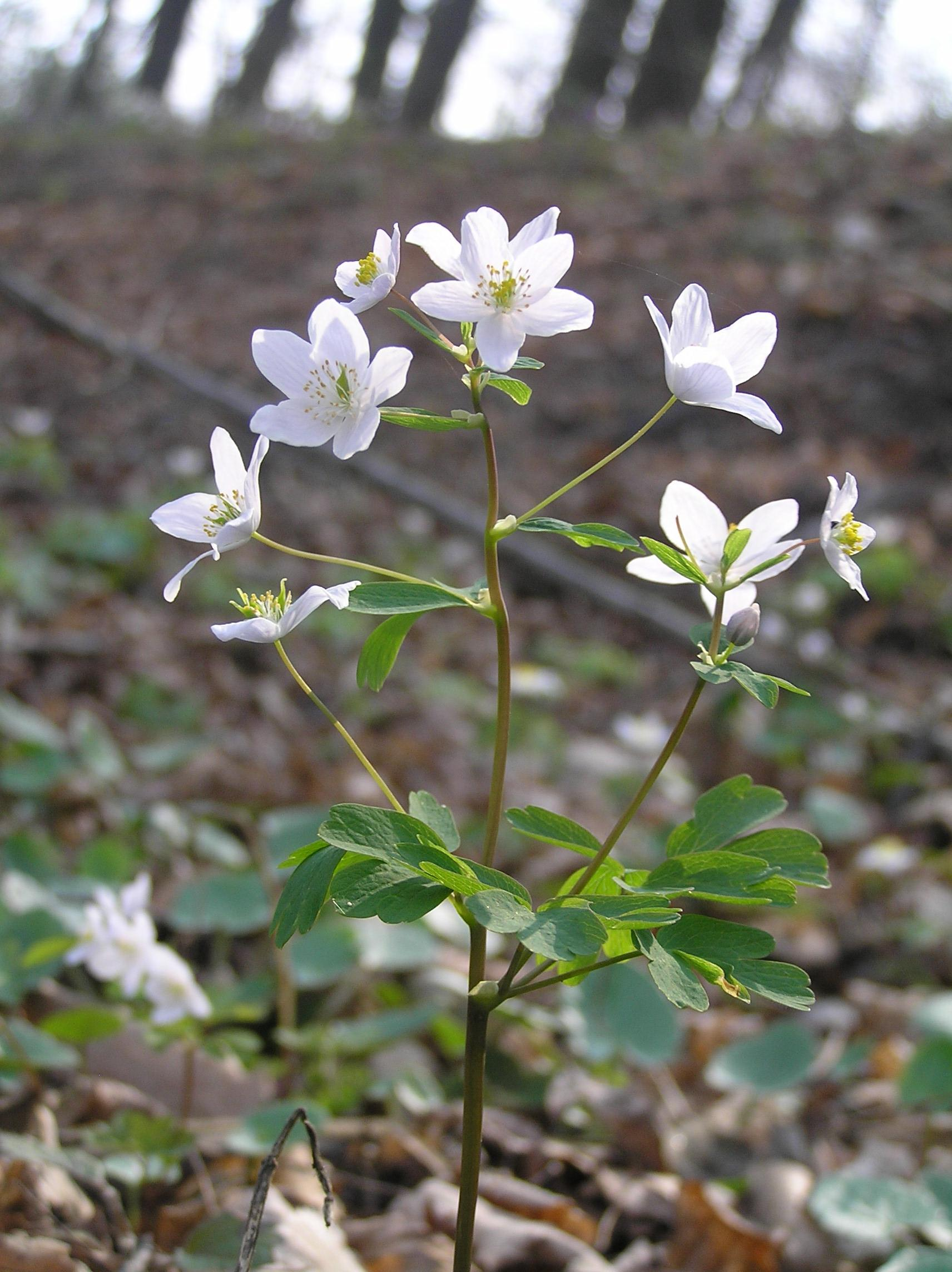 Isopyrum thalictroides, Lipník nad Bečvou, Northern Moravia, Czech Republic